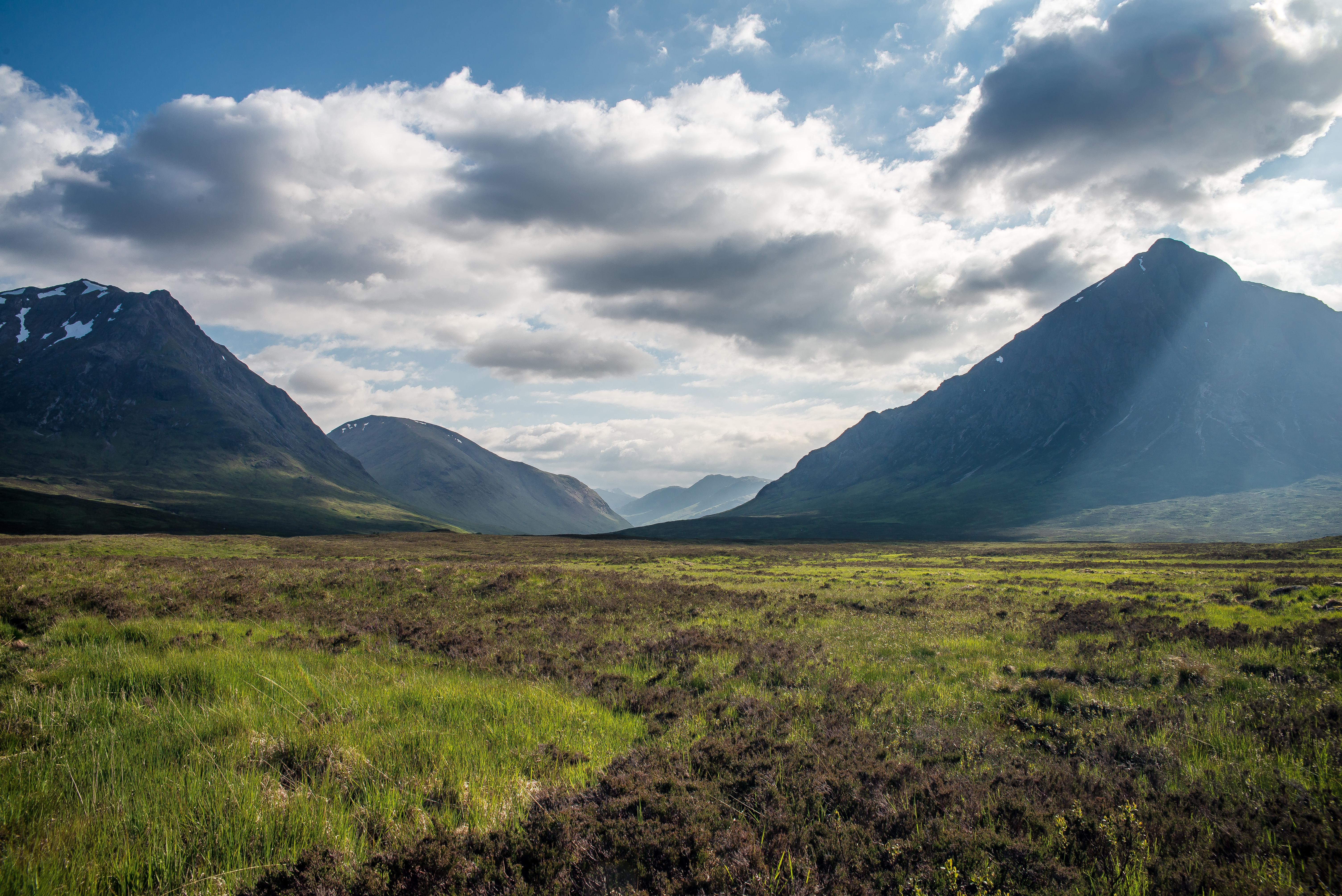 Another visit to the amazing Scottish Highlands.